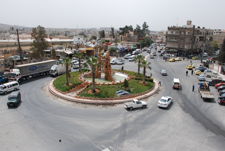 The biggest square in Al Kiswah city